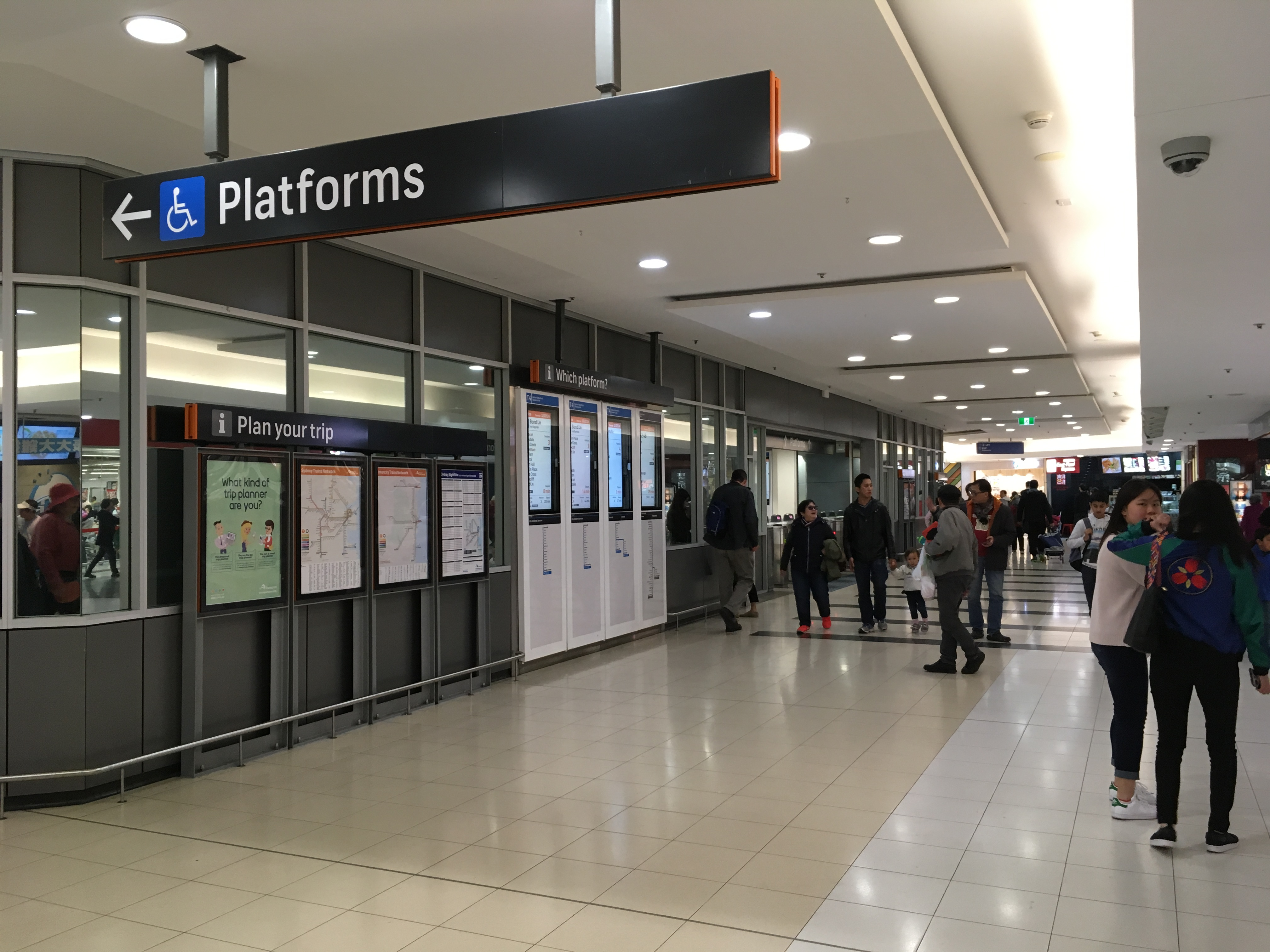 View of the western ticket barriers to Hurstville railway station, located inside the Hurstville Central shopping centre. The entrance, which faces the centre's Coles Supermarkets store, features a four digital indicators, three dedicated to Sydney Trains's T4 Eastern Suburbs & Illawarra Line service, and one for NSW TrainLink's South Coast Line service. Right beside them, four information panels, two of which occupied by networks of the Sydney Trains and NSW TrainLink systems, respectively. Seven ticket barriers line the station's western entrance, with no "easy access" gate unlike the station's eastern entrance.